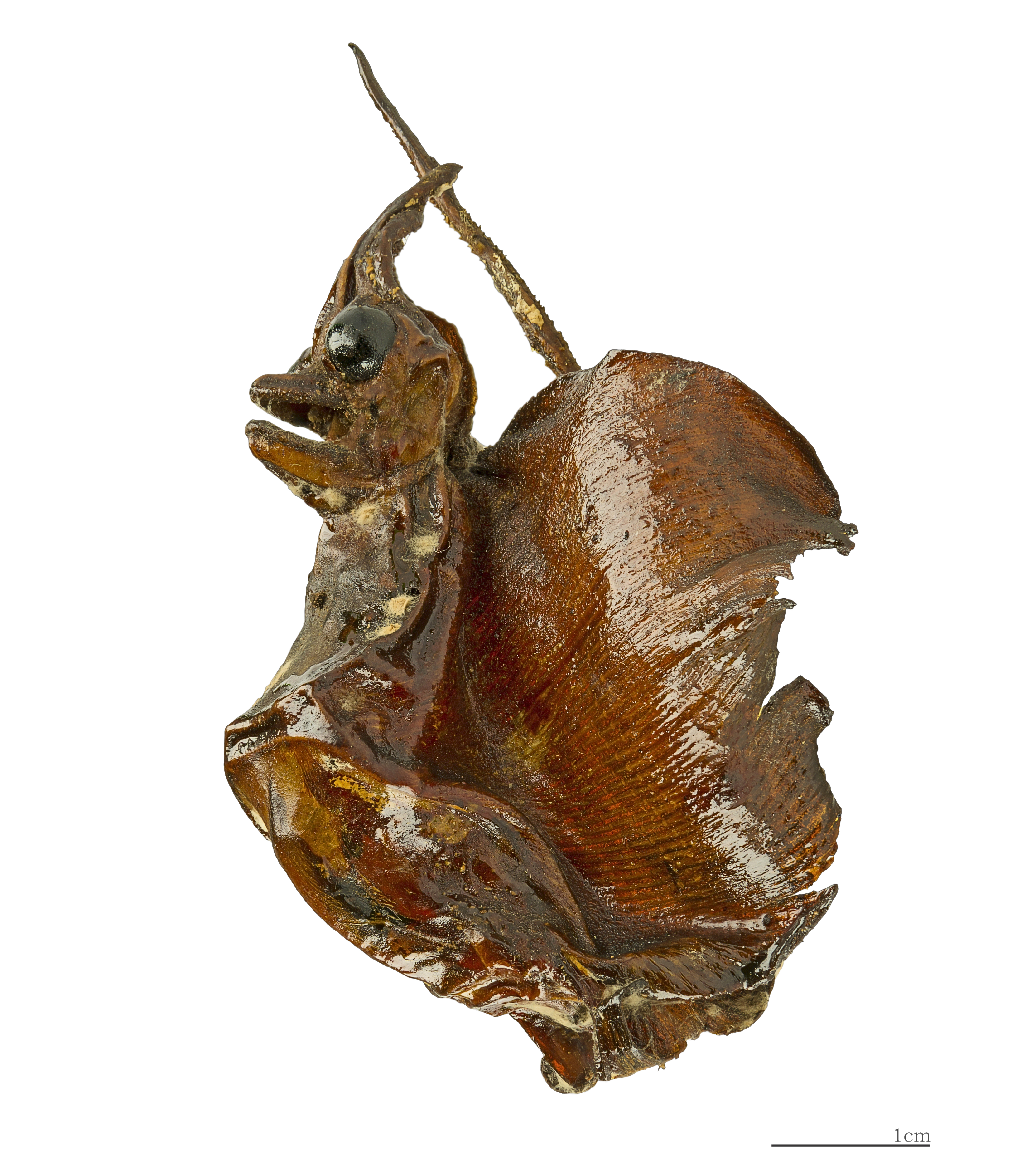 "Jenny Haniver" little dragon form. Former Jules Berdoulat collection. Obtained from one Guitarfish - Profil.